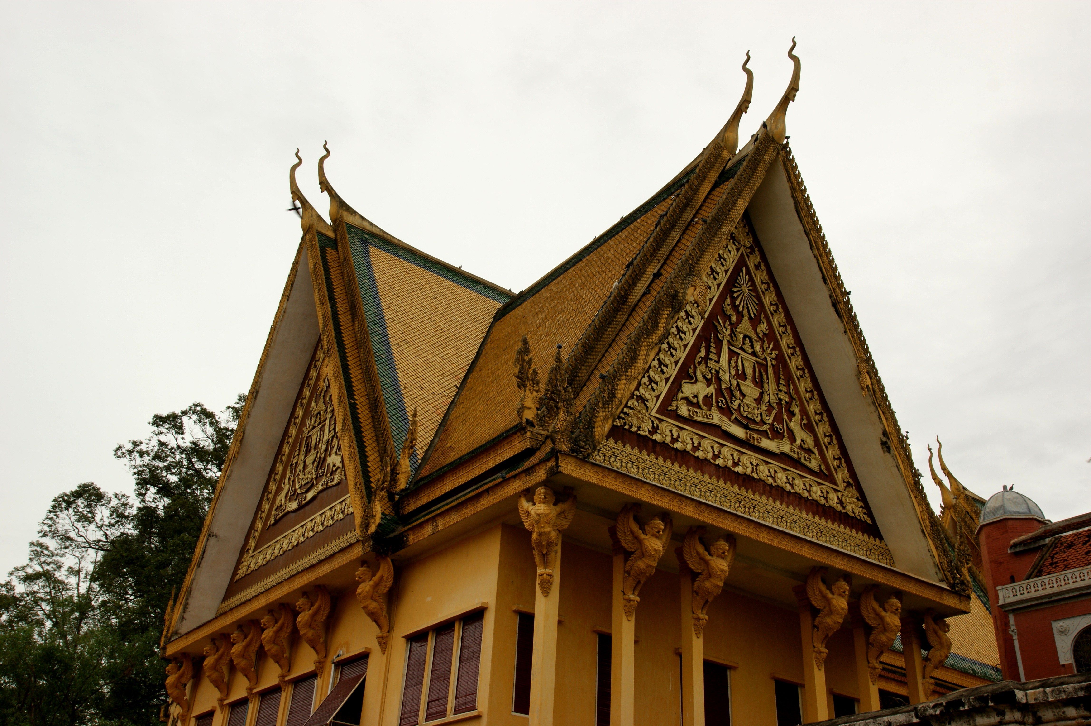 2009-09-07 09-09 Phnom Penh 104 Royal Palace